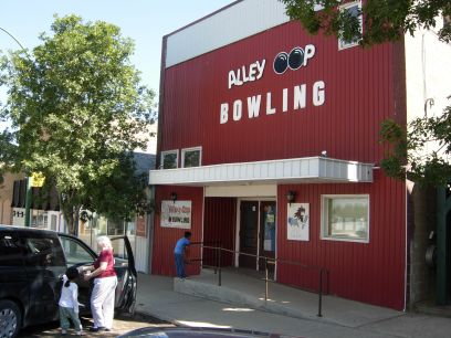 Picture taken by Victor L. Lee, September 2006 of the historic Radville Theater, converted to the Alley Oop bowling alley. Picture taken by Victor L. Lee, September 2006 of the historic Radville Theater, converted to the Alley Oop bowling alley.